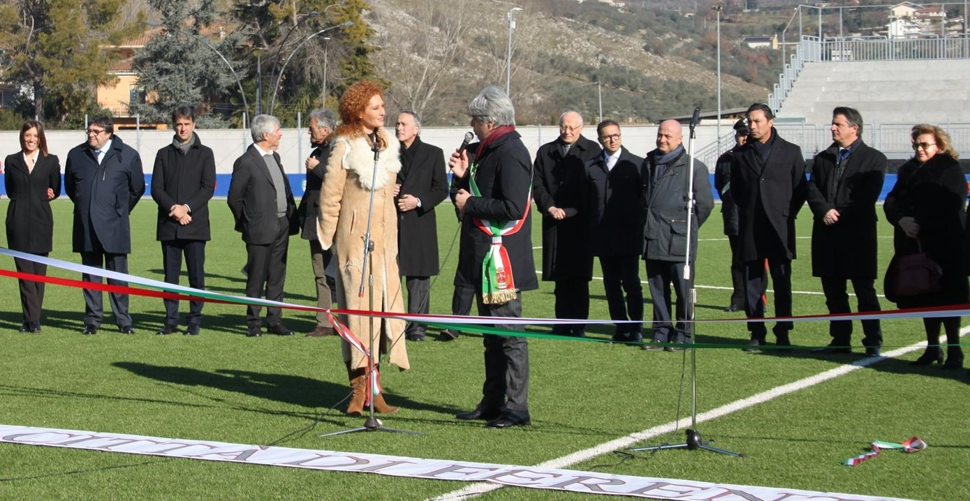 Frosinone Calcio: Cittadella dello Sport training centre in Ferentino. Under 17 Italy vs Span 1-1